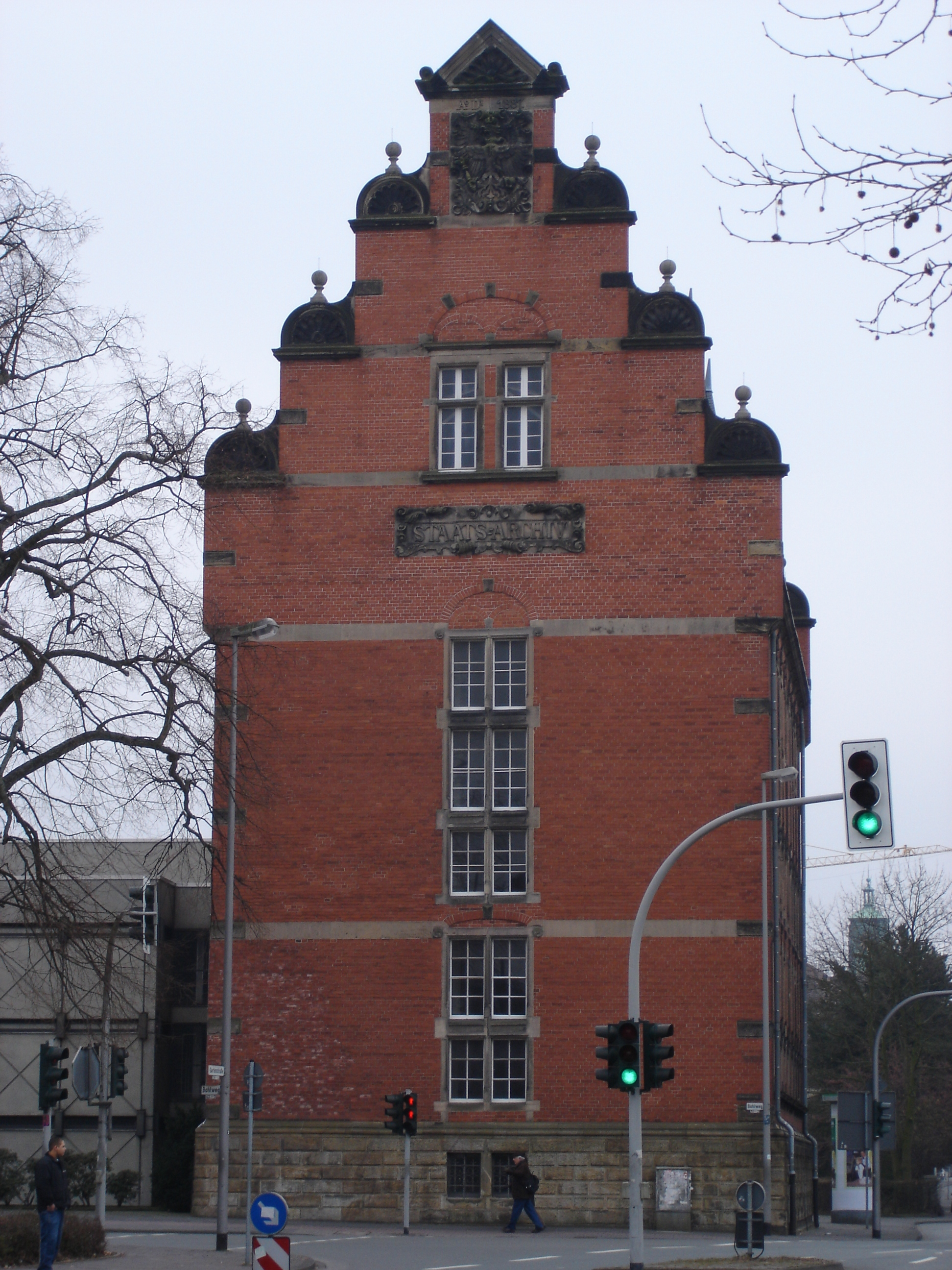 North side of the warehouse of the state archive of the city of Münster, Westphalia, Germany